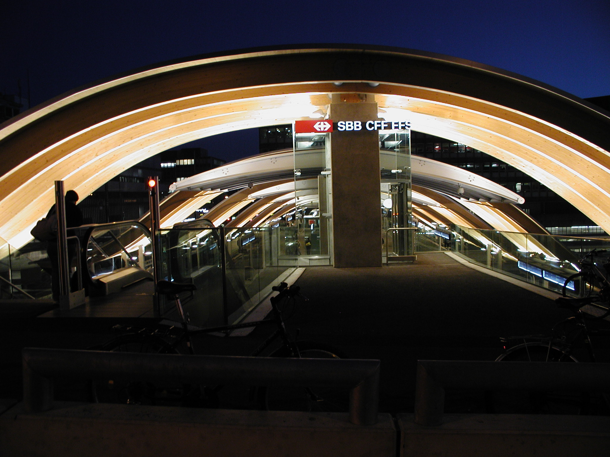 "Welle von Bern" ("Wave of Bern"), the west entrance of the main station Bern